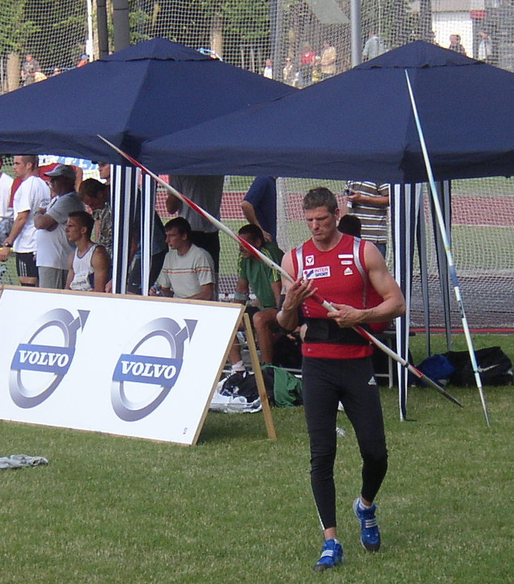 Austrian decathlete Roland Schwarzl at TNT - Fortuna Meeting in Kladno, June 19, 2008.